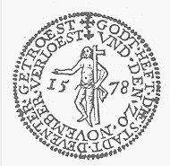 Coin of Deventer